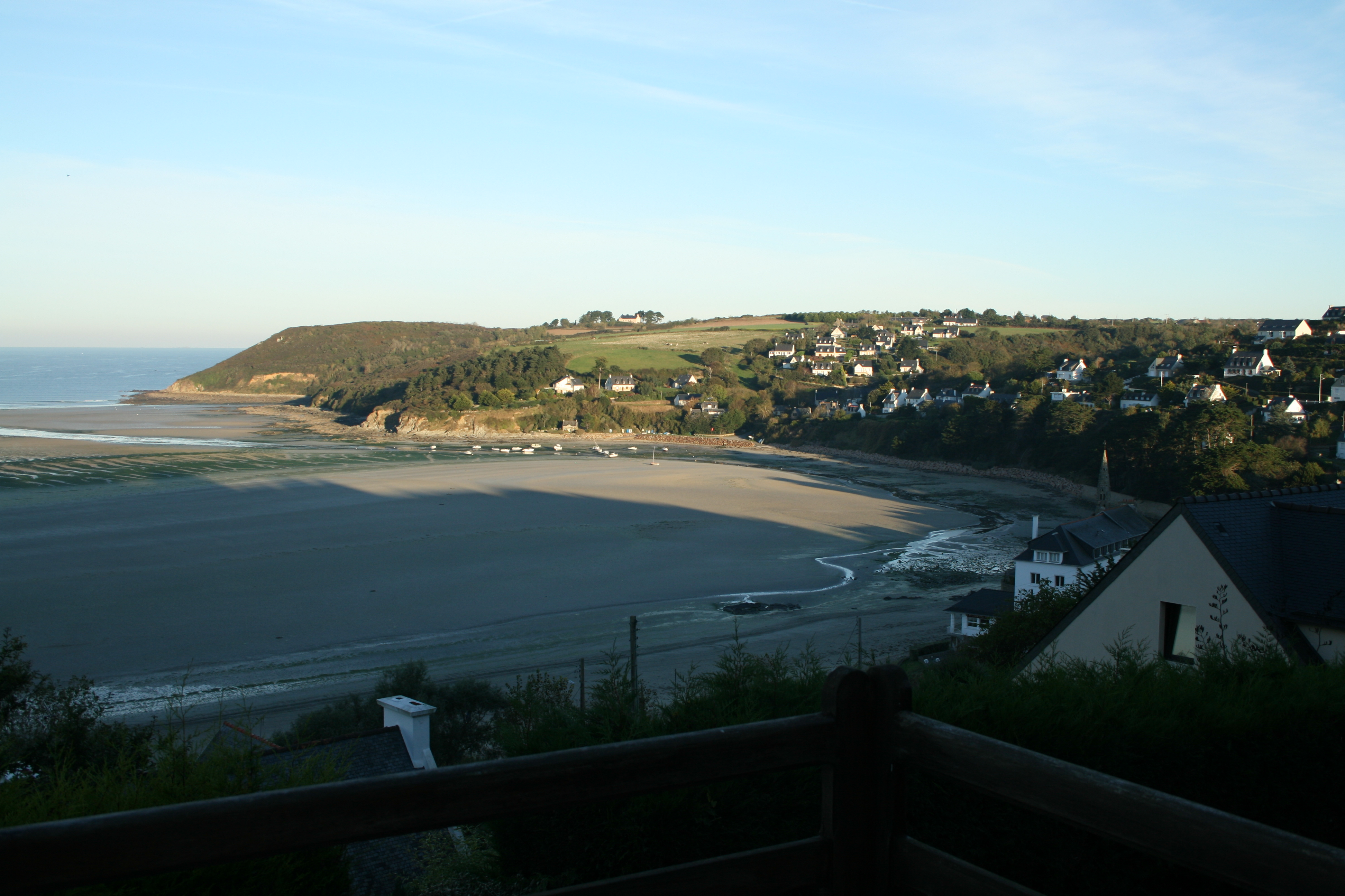 The bay at Saint-Michel-en-Grève, Cotes d'Armor, Brittany